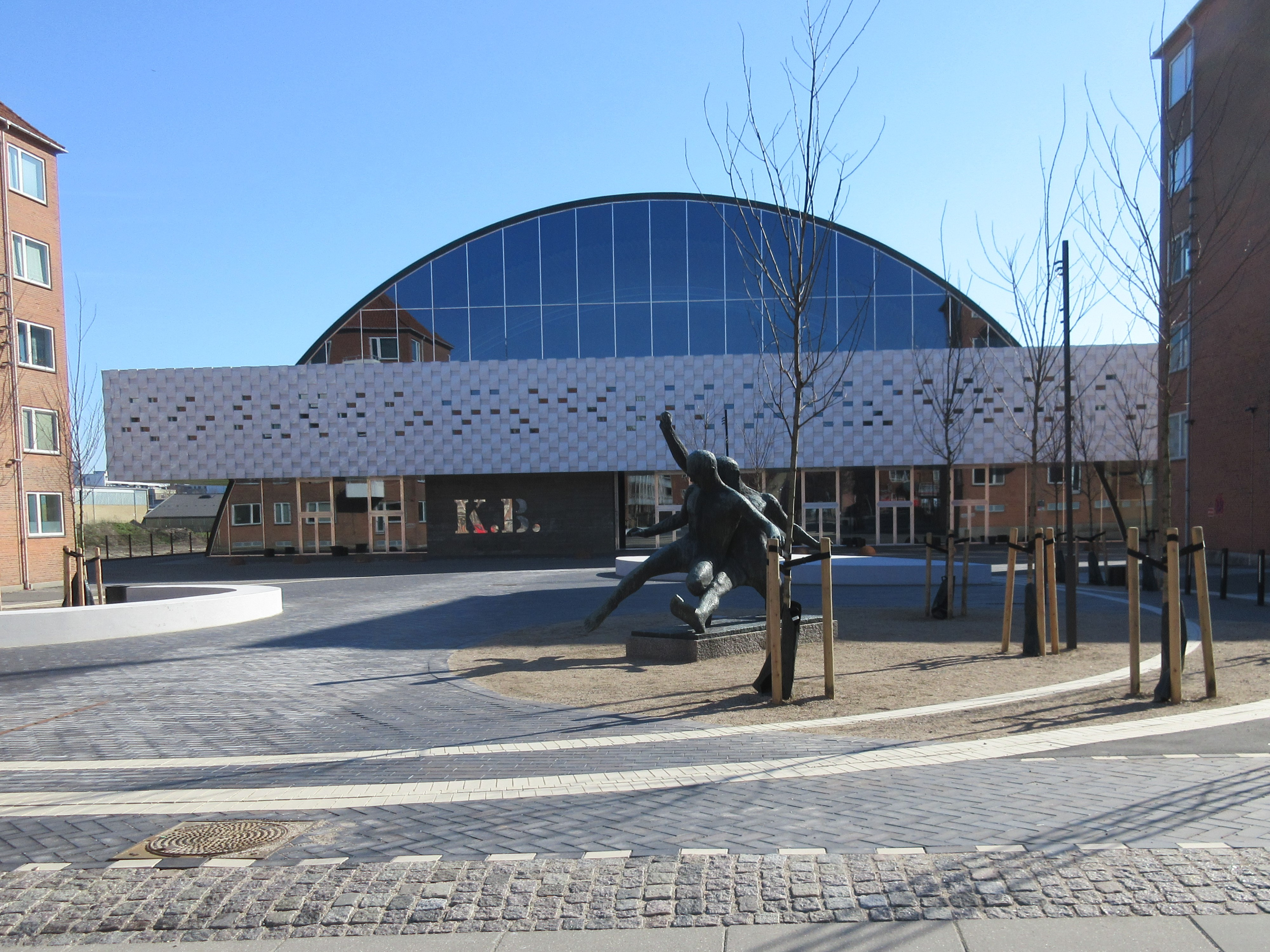 K.B. Hallen in Frederiksberg, Denmark